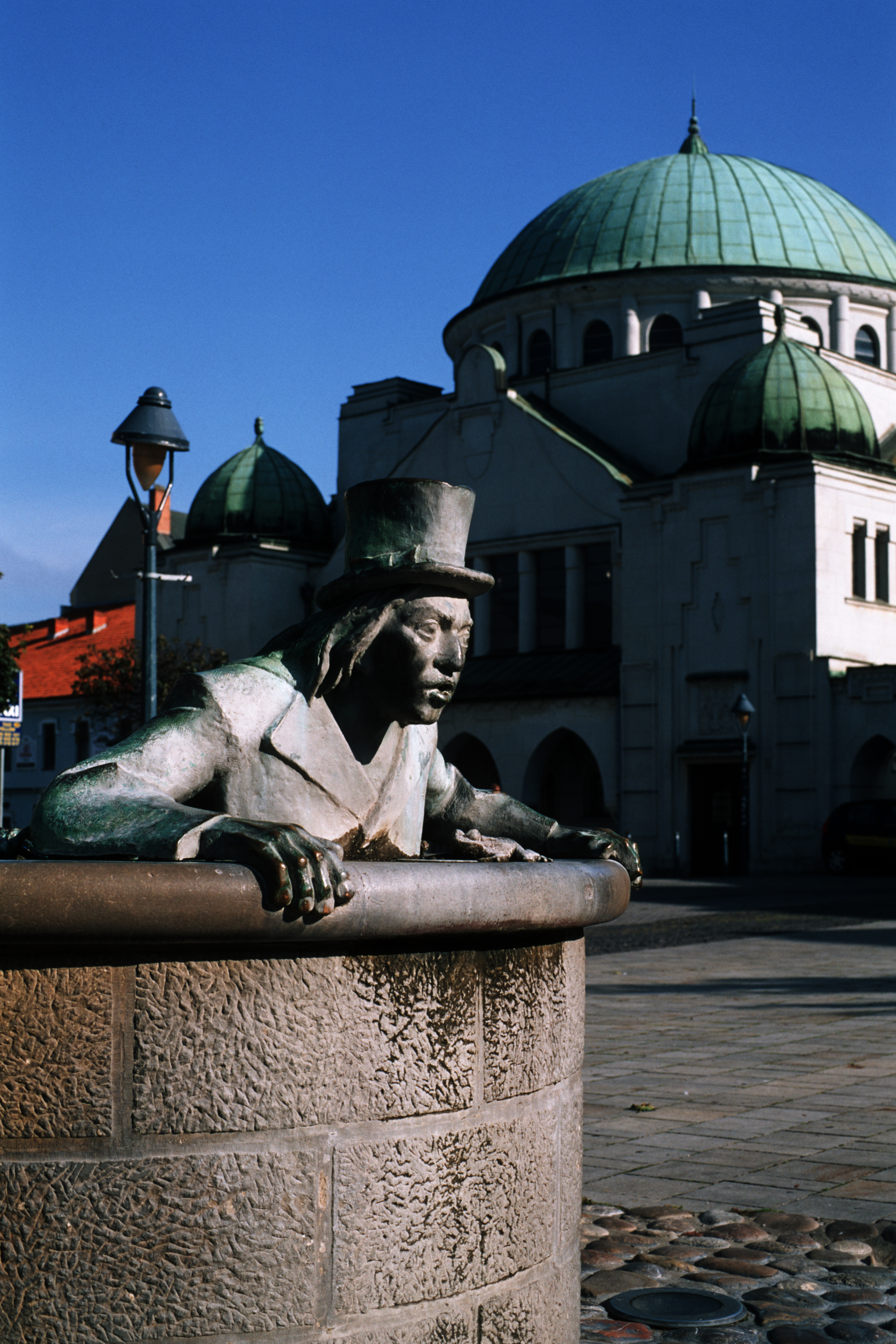 Vodyanoy at Štúr's square in Trenčín, Slovakia.